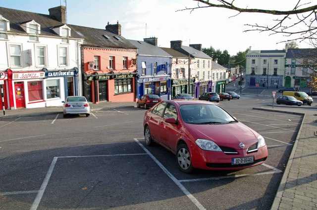 Mitchelstown, New Square